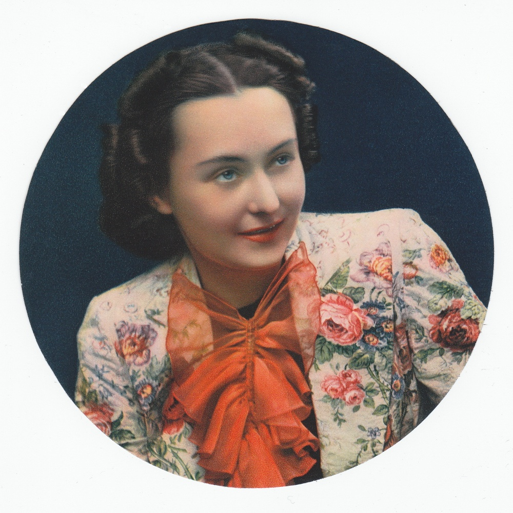 Hana Vítová (1914–1987) was Czech stage and film actress and singer.